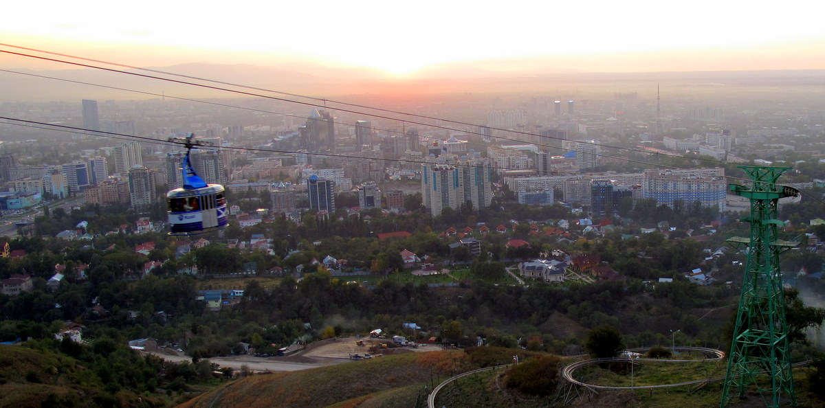 View of Almaty from Green Hill